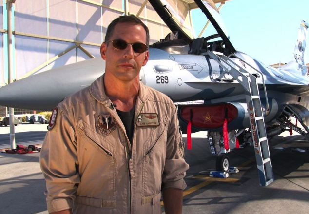 Dan Hampton, US Air Force fighter pilot standing in front of an F-16 fighter jet.